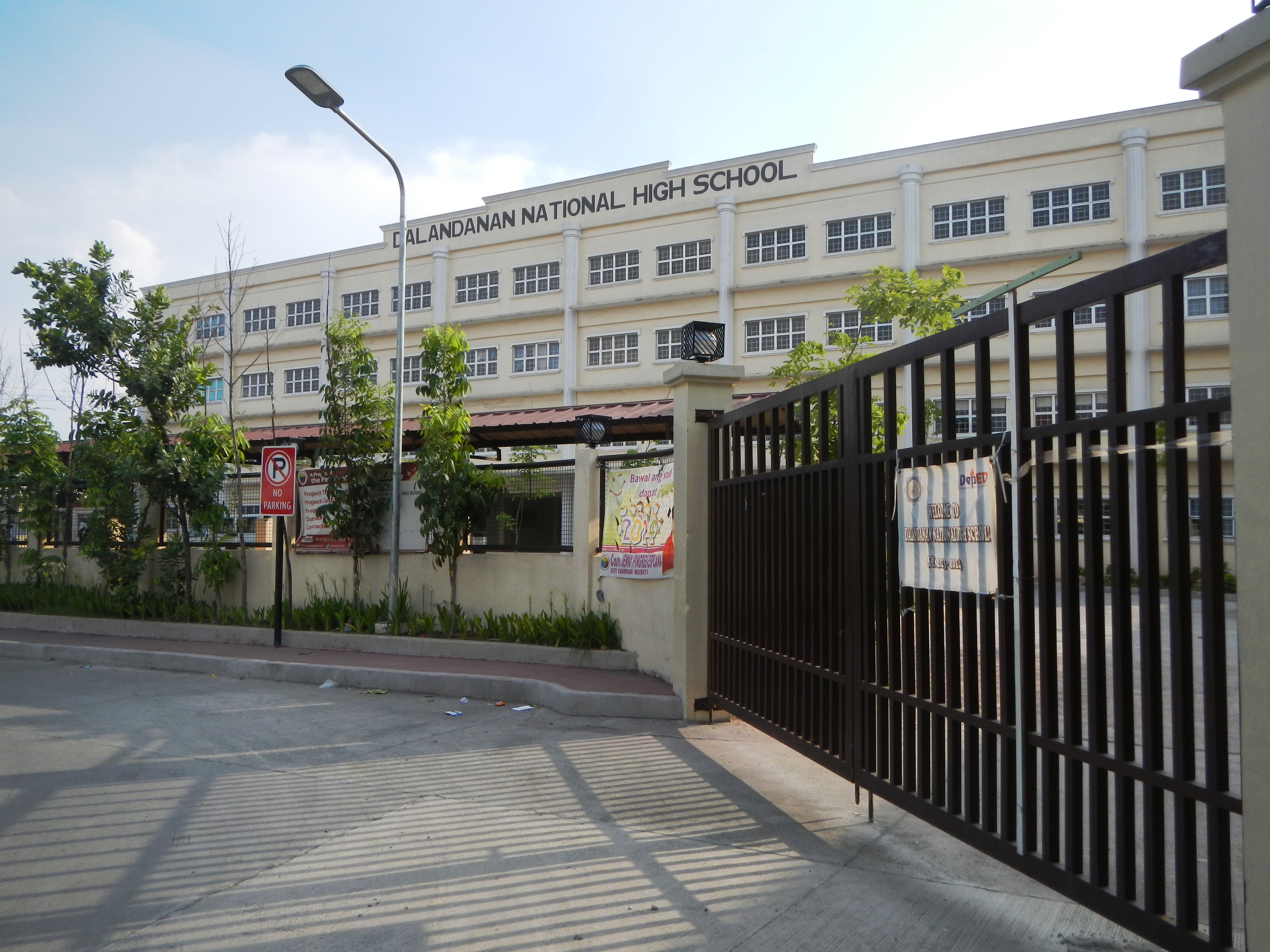 Valenzuela City Astrodome is beside or adjoins Valenzuela City Emergency Hospital which is in front of the Dalandanan National High School, 025 G. Lazaro Street, Dalandanan, in Barangay Dalandanan, Valenzuela City - Valenzuela, Philippines (List of barangays in Valenzuela - Valenzuela).